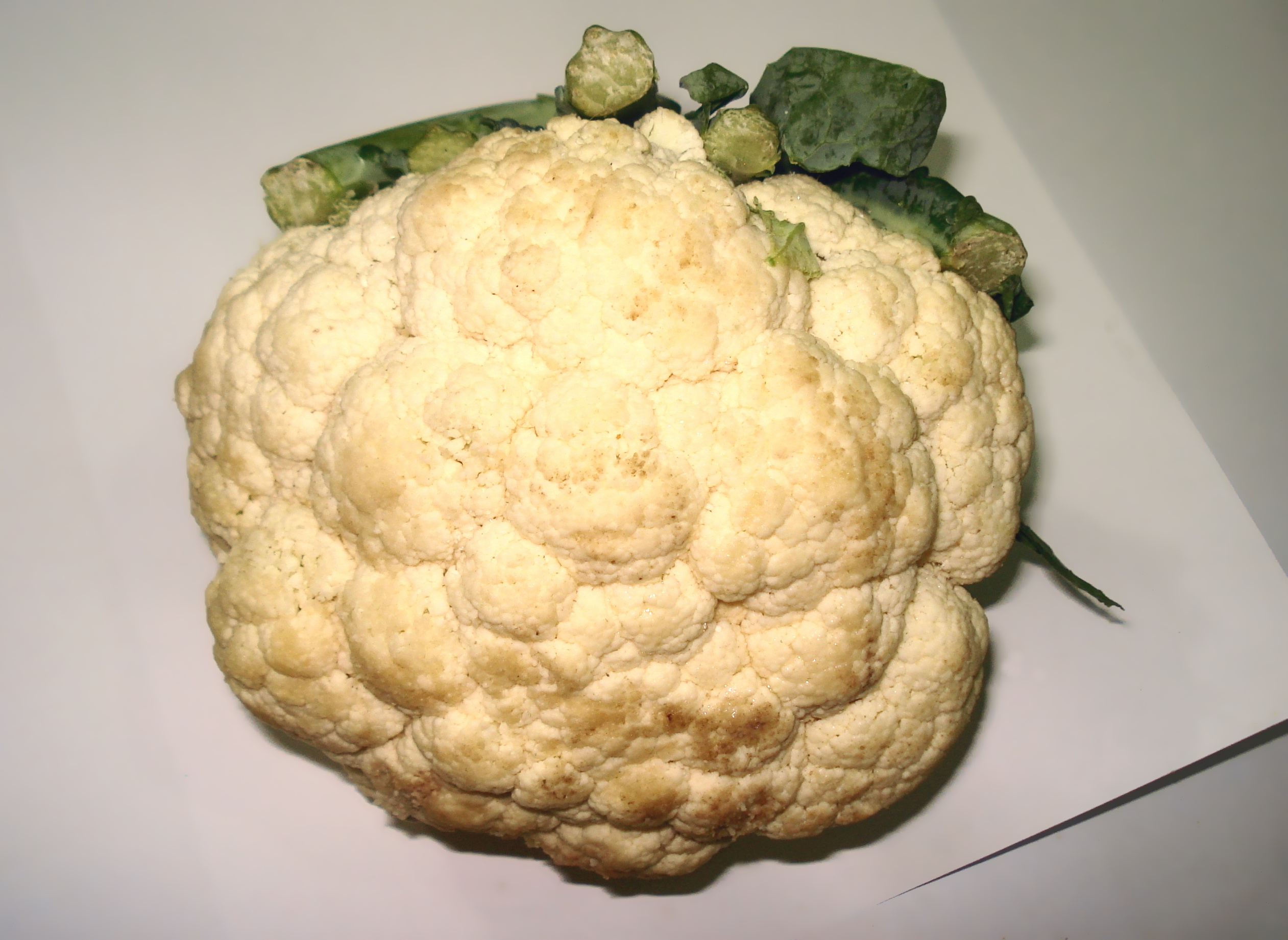 Cauliflower